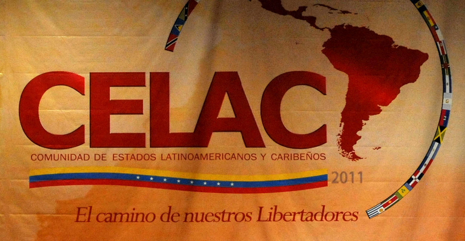 Logo of CELAC (Community of Latin American and Caribbean States) used during the Caraacas convention of 2011.